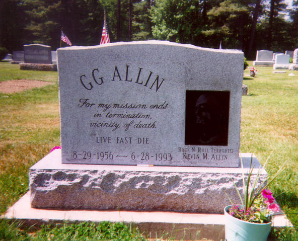 Own work. The grave site of punk singer GG Allin in Saint Rose Cemetery, Littleton, New Hampshire, USA.